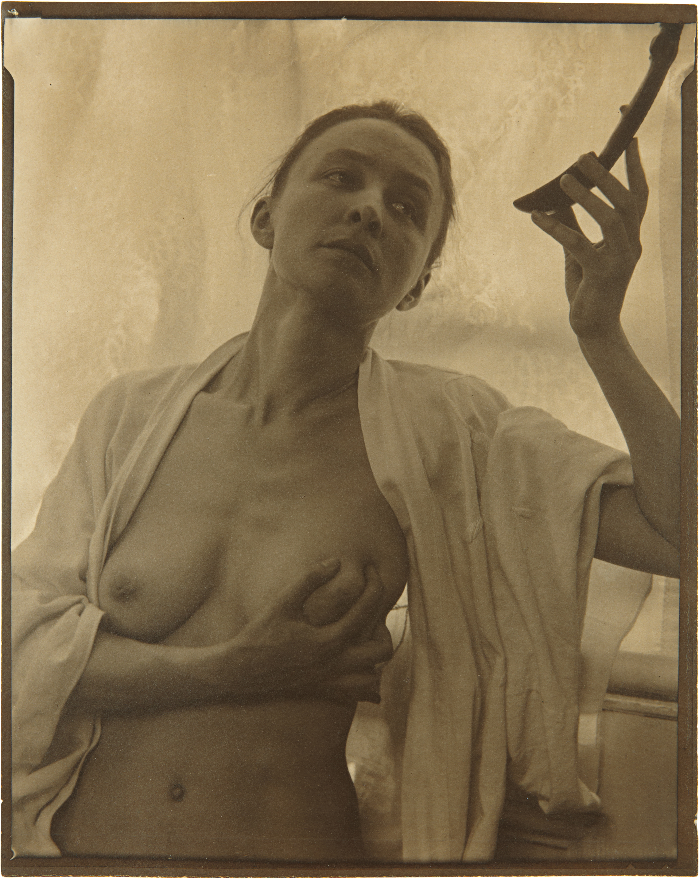 Georgia O'Keeffe, platinum palladium print.